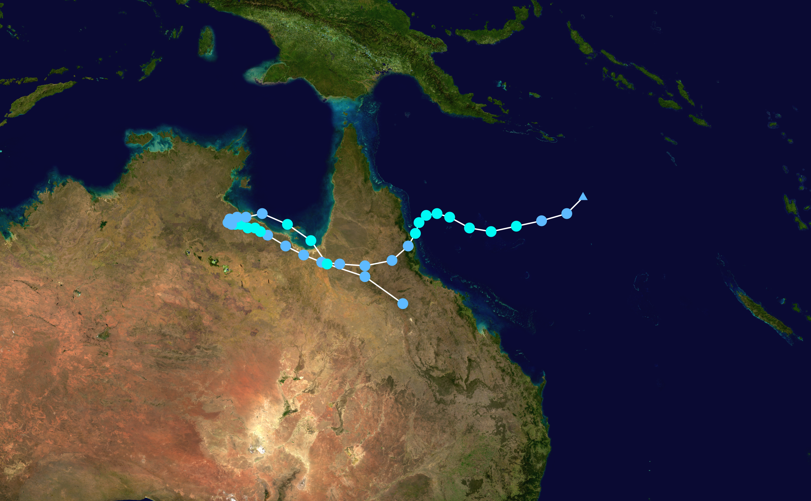 Track map of Tropical Cyclone Olga of the 2009-10 Australian region cyclone season. The points show the location of the storm at 6-hour intervals. The colour represents the storm's maximum sustained wind speeds as classified in the Saffir–Simpson scale (see below), and the shape of the data points represent the nature of the storm, according to the legend below. Saffir–Simpson scale Tropical depression≤38 mph≤62 km/h Category 3111–129 mph178–208 km/h Tropical storm39–73 mph63–118 km/h Category 4130–156 mph209–251 km/h Category 174–95 mph119–153 km/h Category 5≥157 mph≥252 km/h Category 296–110 mph154–177 km/h Unknown Storm type Tropical cyclone Subtropical cyclone Extratropical cyclone / Remnant low / Tropical disturbance / Monsoon depression